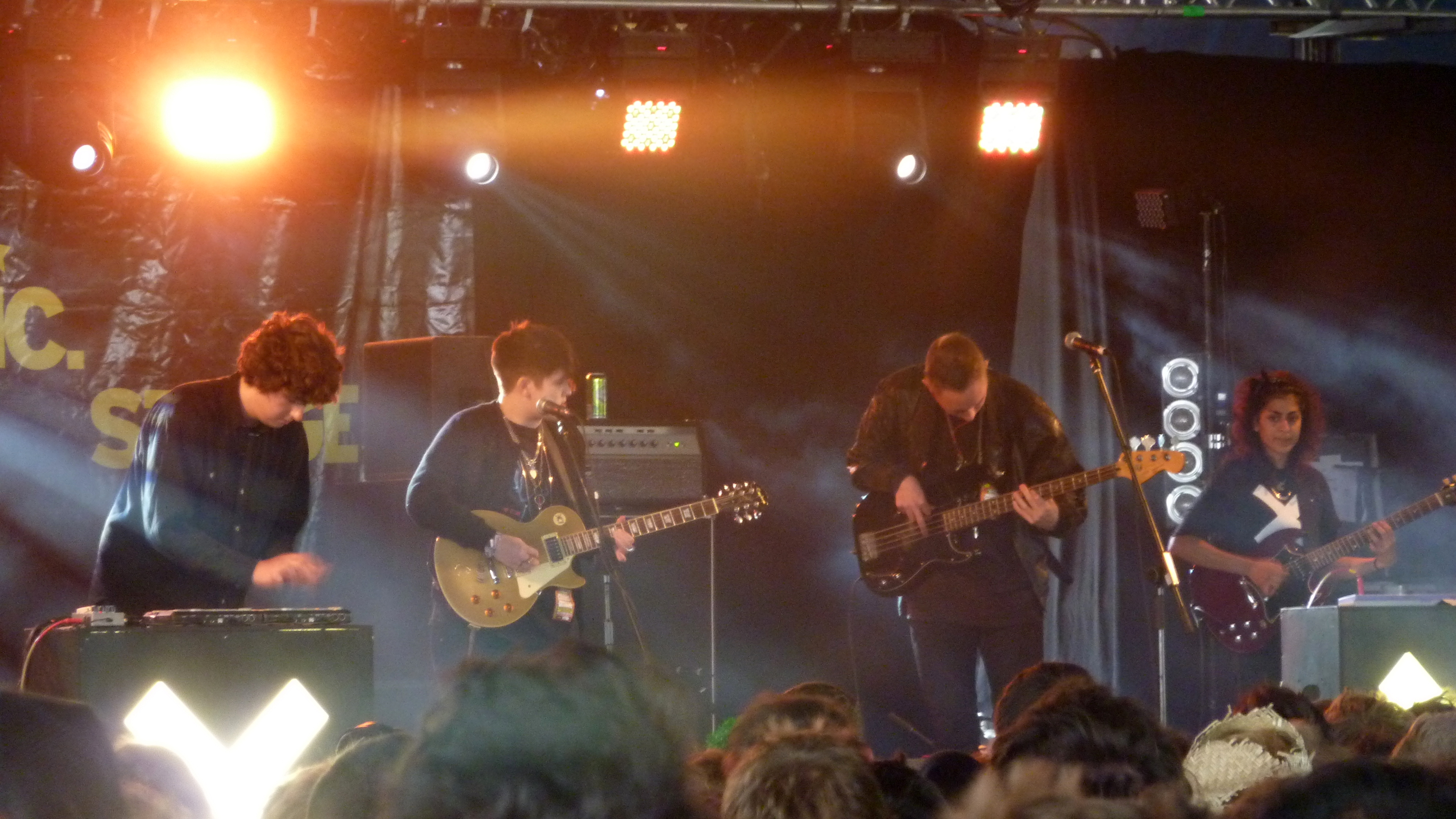 The xx performing in South London at the Reading Festival on 30 August 2009